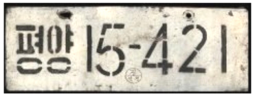 north korea license plate_1992